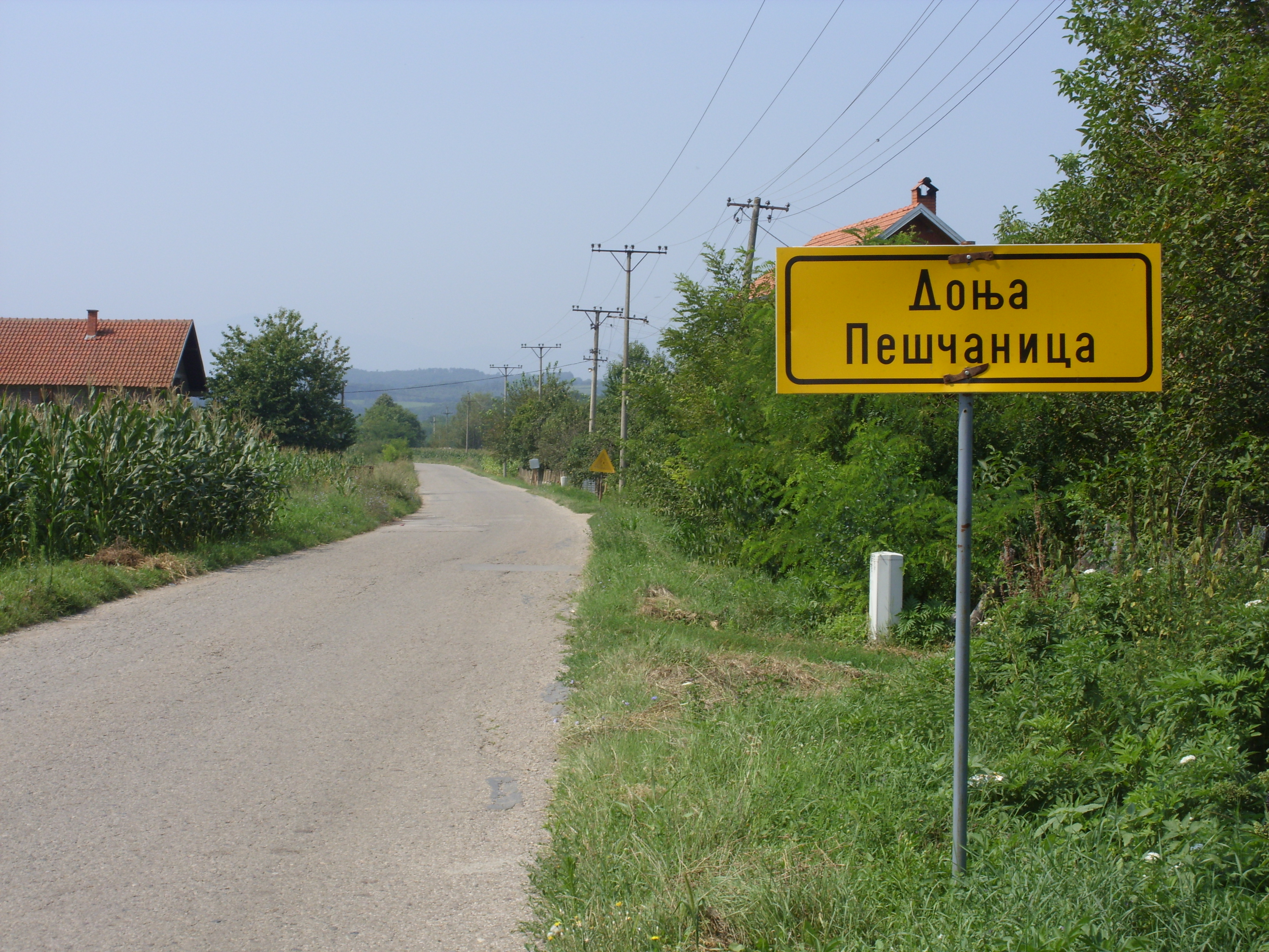 village Donja Pescanica, municipality of Aleksinac, Serbia